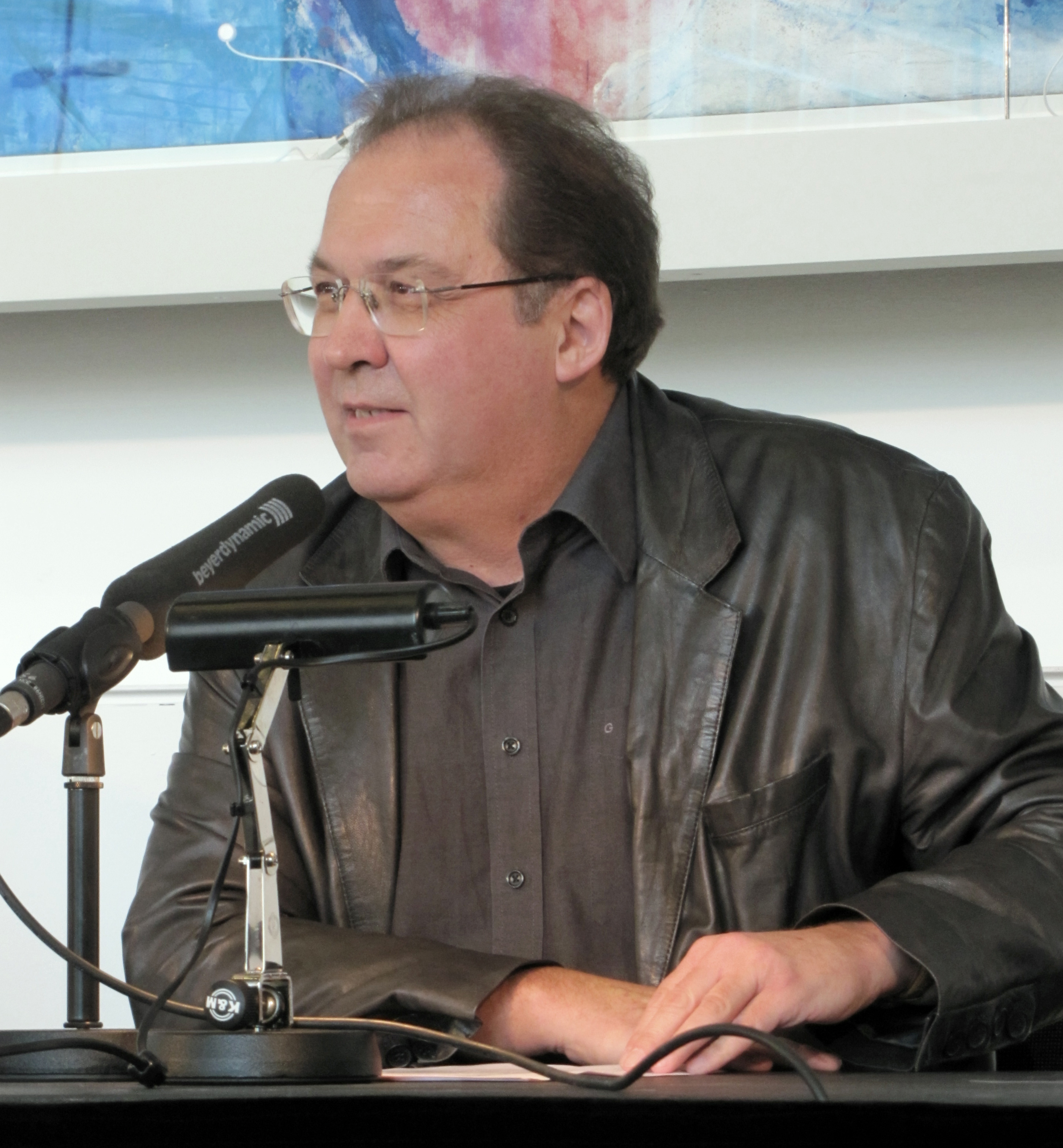 Reiner Stach, German writer, 2011 in Frankfurt am Main, Germany.